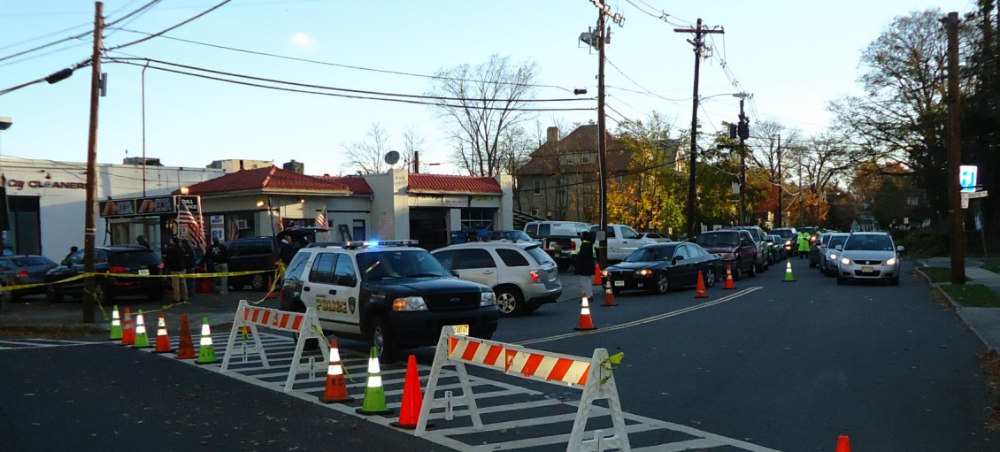 In the aftermath of Hurricane Sandy, the tri-state region experienced long gas lines since there was no power to work the pumps. At this particular station, only doctors and nurses were allowed to get gas, which was supervised by local police.